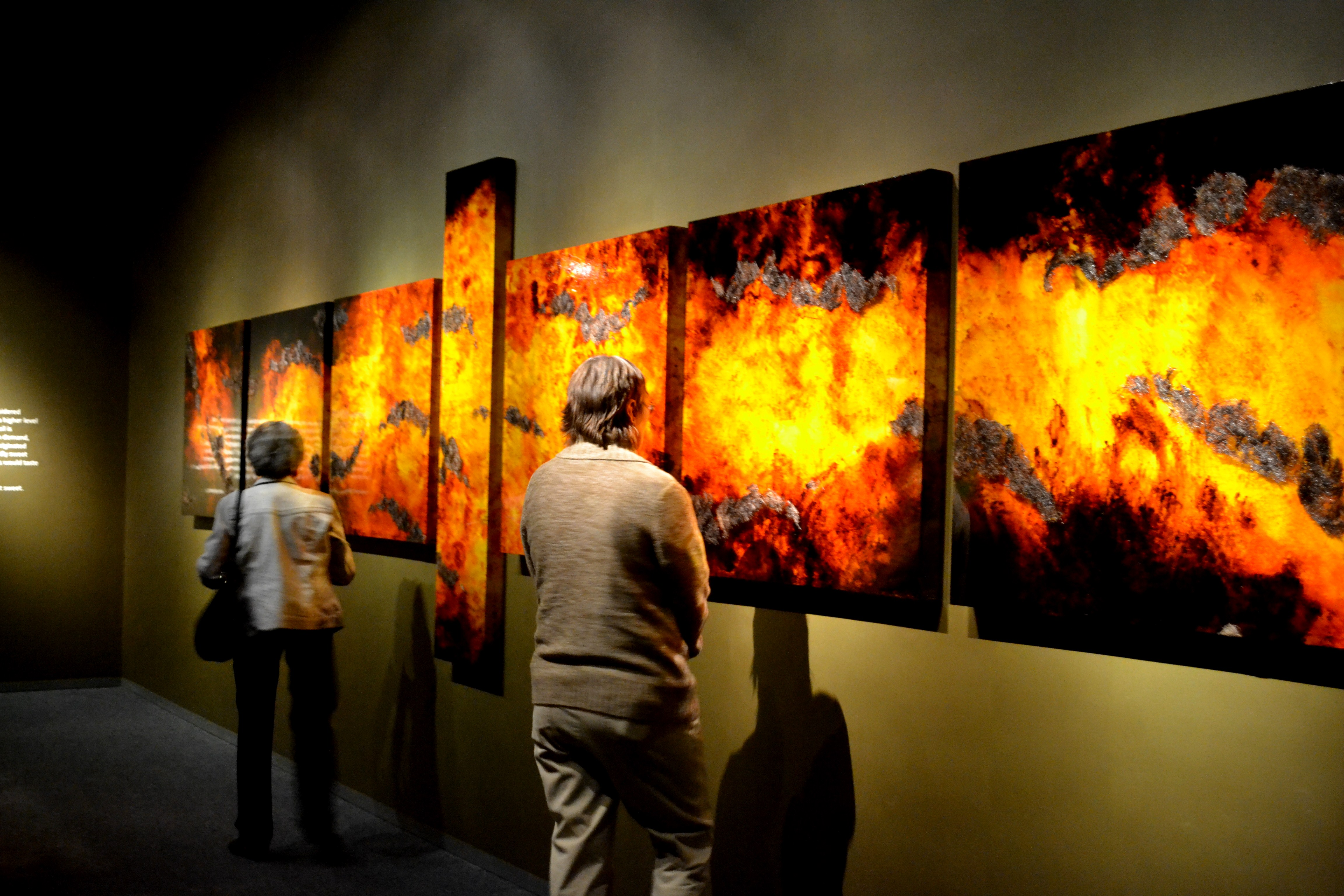 Crude Oil, Ethanol and sugar cane fibers